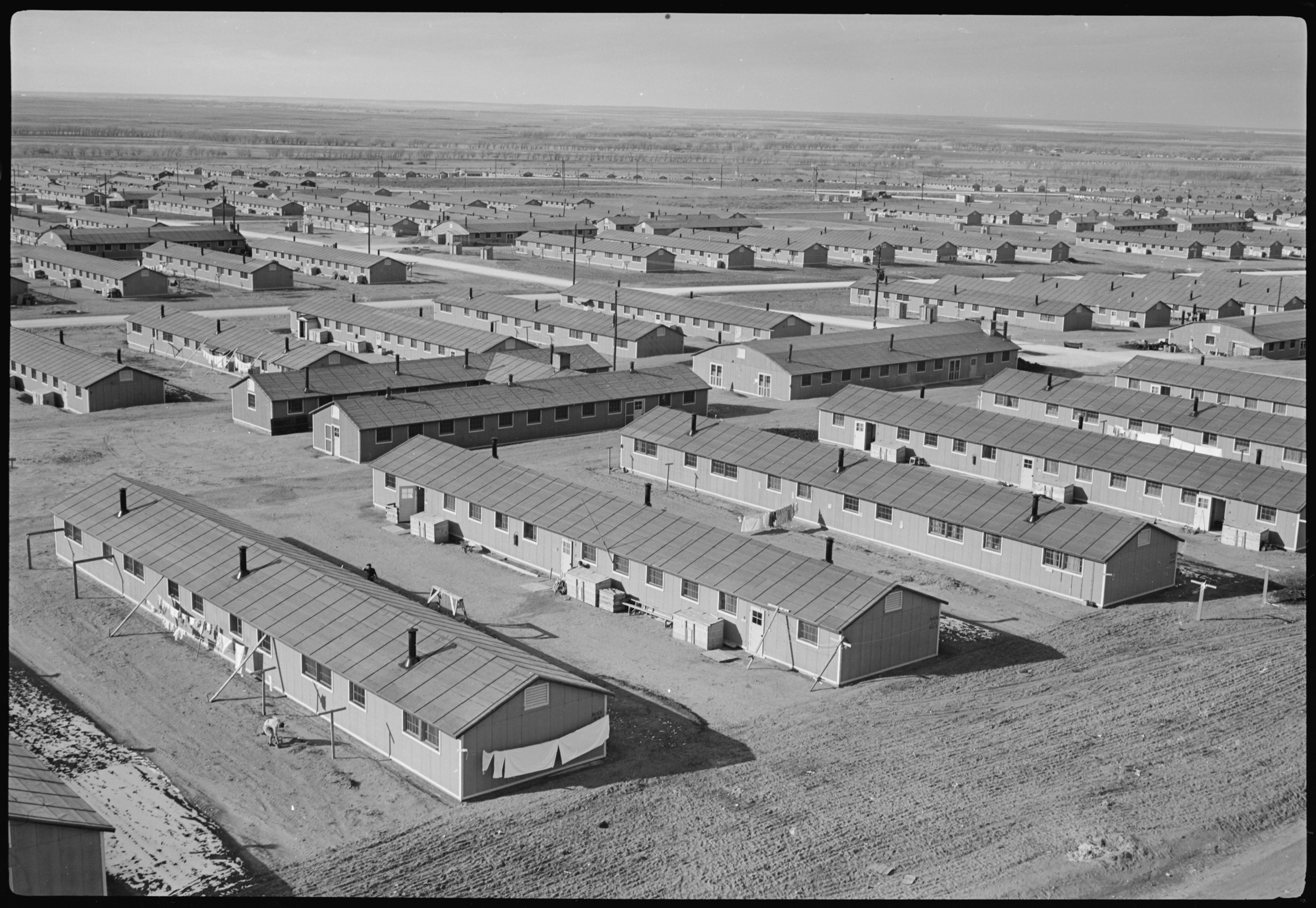 Scope and content: The full caption for this photograph reads: Granada Relocation Center, Amache, Colorado. A view of the Granada Center looking northwest from the water tower.